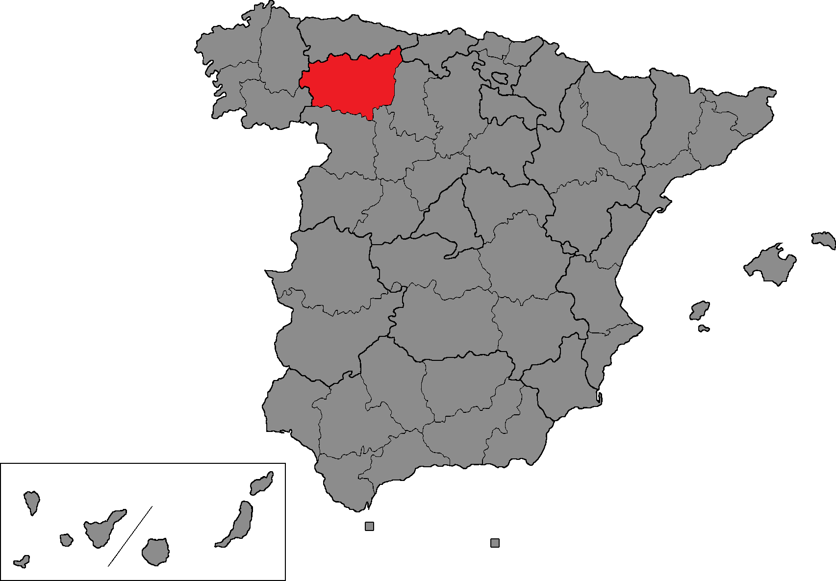 Spanish Congress of Deputies district of León.